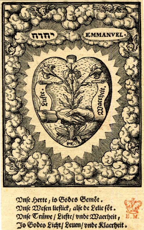 A heart with two clasped hands and a Lilly, one labelled Liefte (Love) and the other Waerheit (Truth), above there is enscribed יַהְוֶה (Jahwe) and Emmanuel. Underneath there is written in Lower German "Unse Herte, is Godes Gemöt, Unse Wesen ist Lieflicht, alse die Lelie söt, Unse Trüme Liefteunde Waerheit, Is Godes Licht, Leven, unde Klaerheit. (Our heart is God's mind, our being is the love of life, as is that of the Lilly, our dream is love and truth, is god's light, life and clarity".